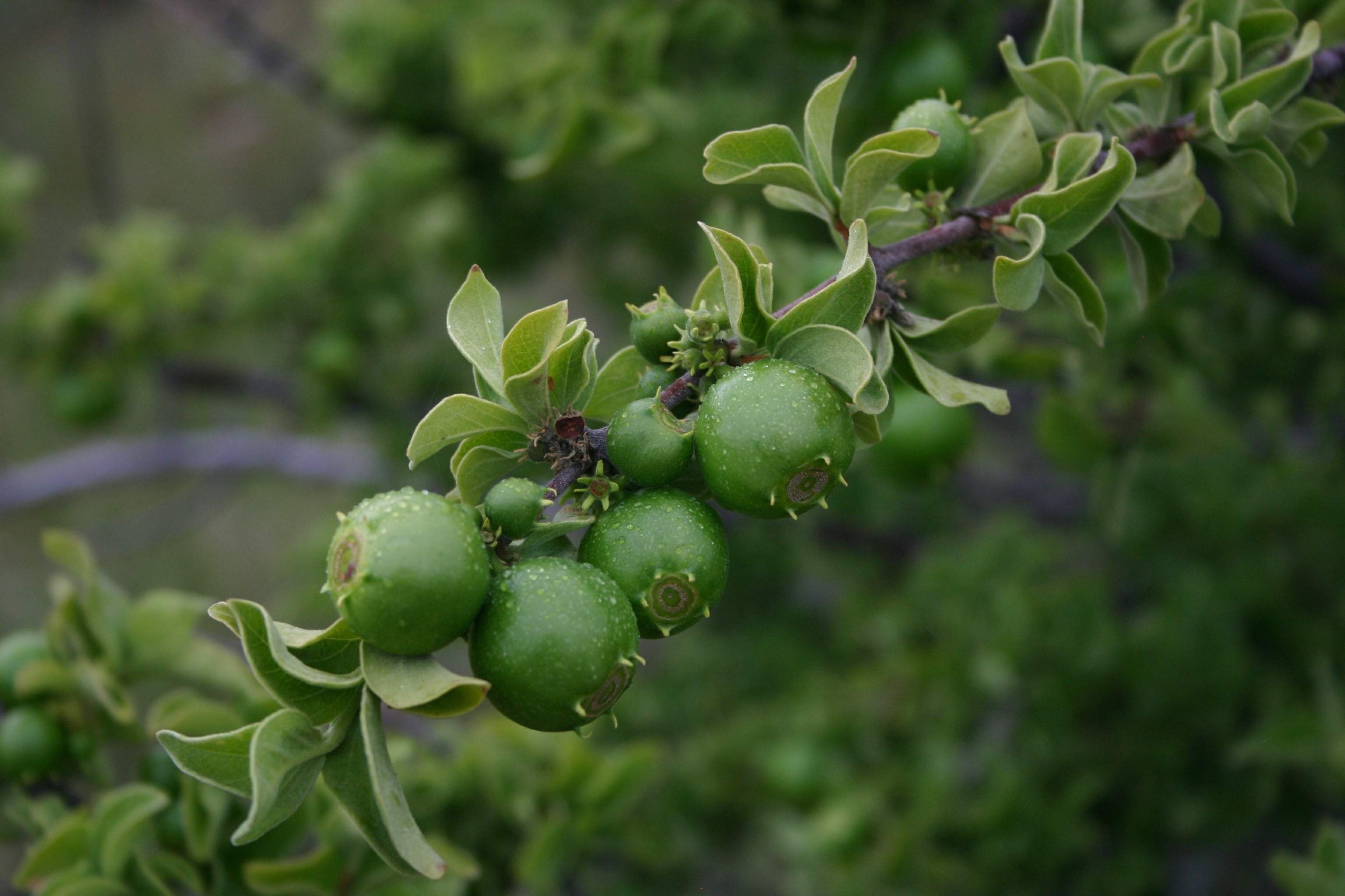 Fruit and leaves of Vangueria parvifolia (formerly Tapiphyllum parvifolium) at Hamerkop in Magaliesberg, South Africa